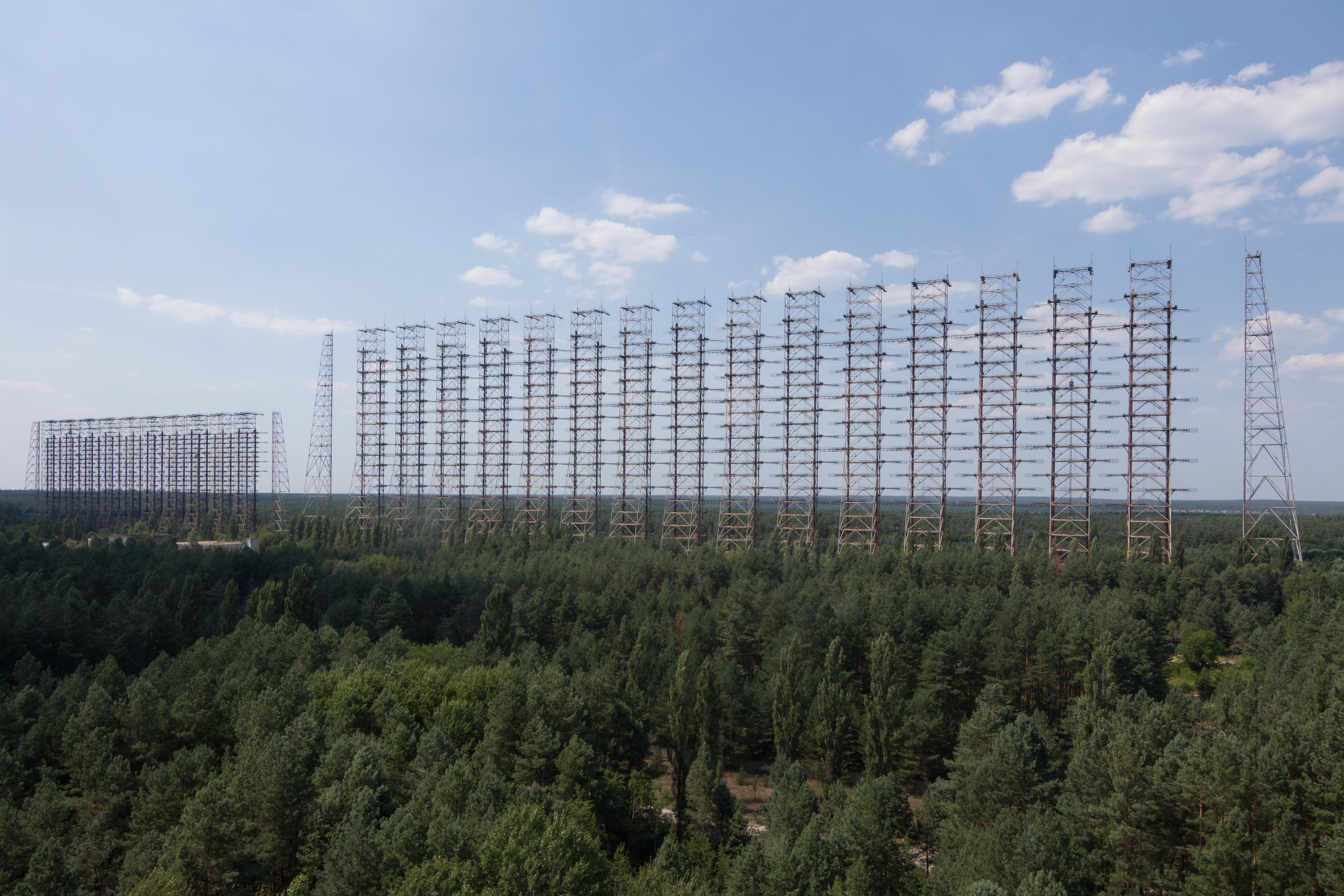 Full view of the two over-the-horizon radar antennas in the Chernobyl-2 complex. The height of the larger antenna is about 150 m, the smaller one is about 90 m high.